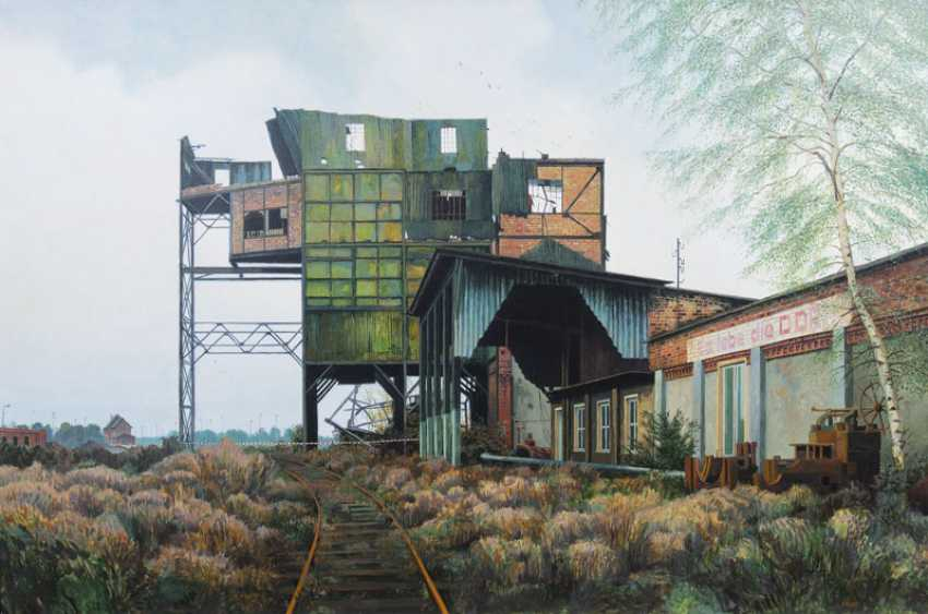 Fritz Kreidt: Es lebe die DDR. Oil/canvas. 85 x 130 cm.